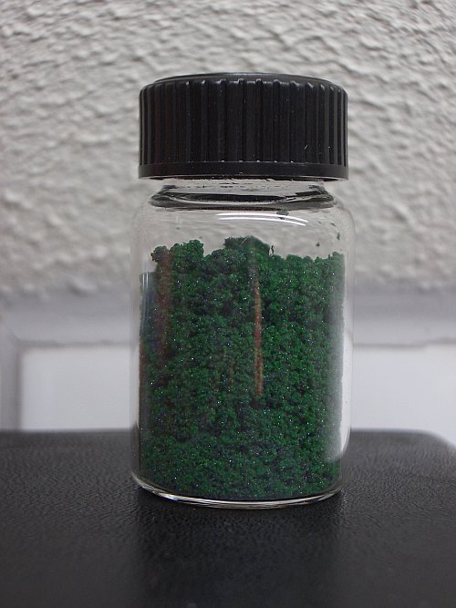 Chromium(III) chloride hexahydrate, green version